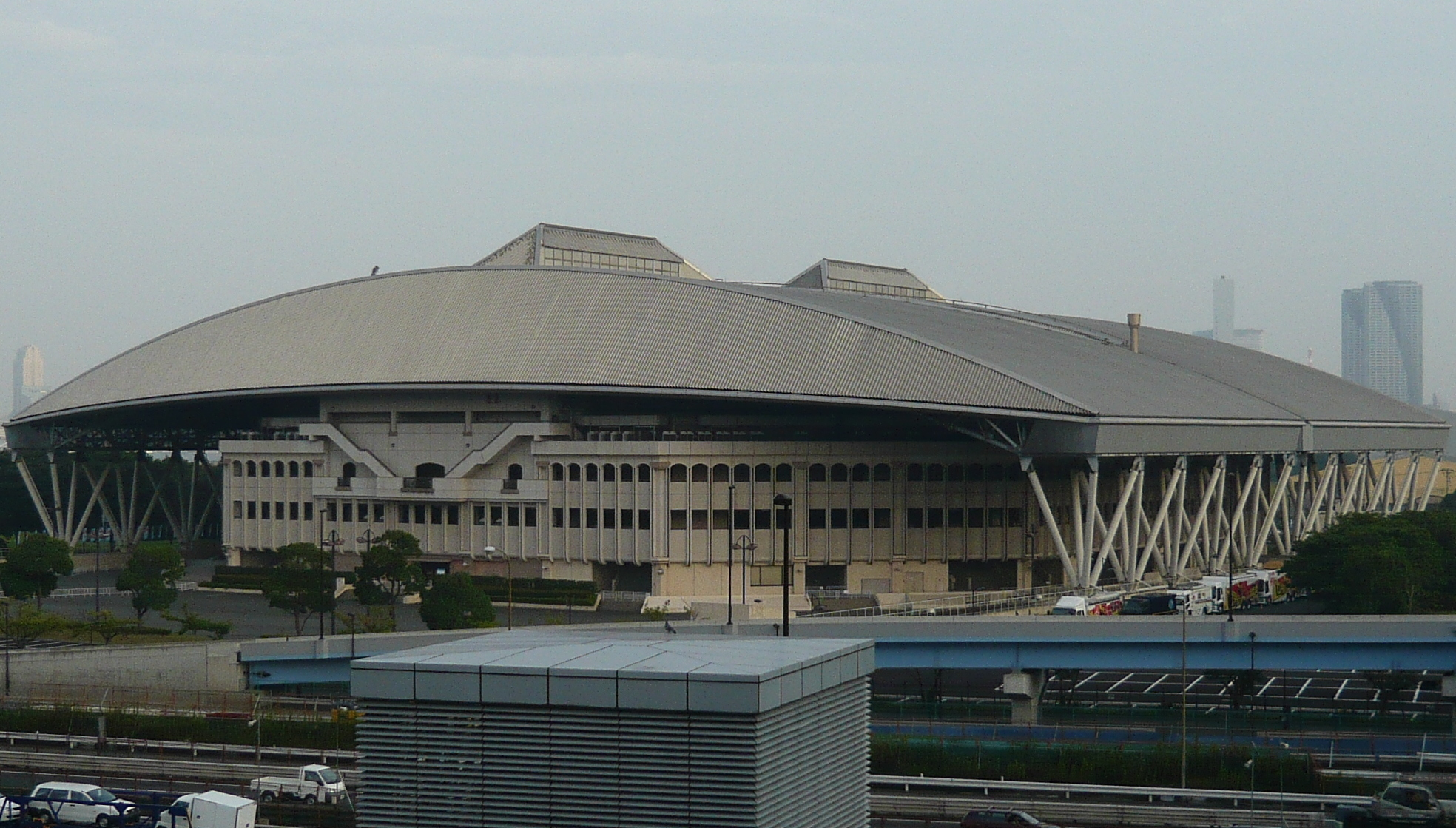 Ariake Colosseum (有明コロシアム) in Koto-ku, Tokyo, Japan.